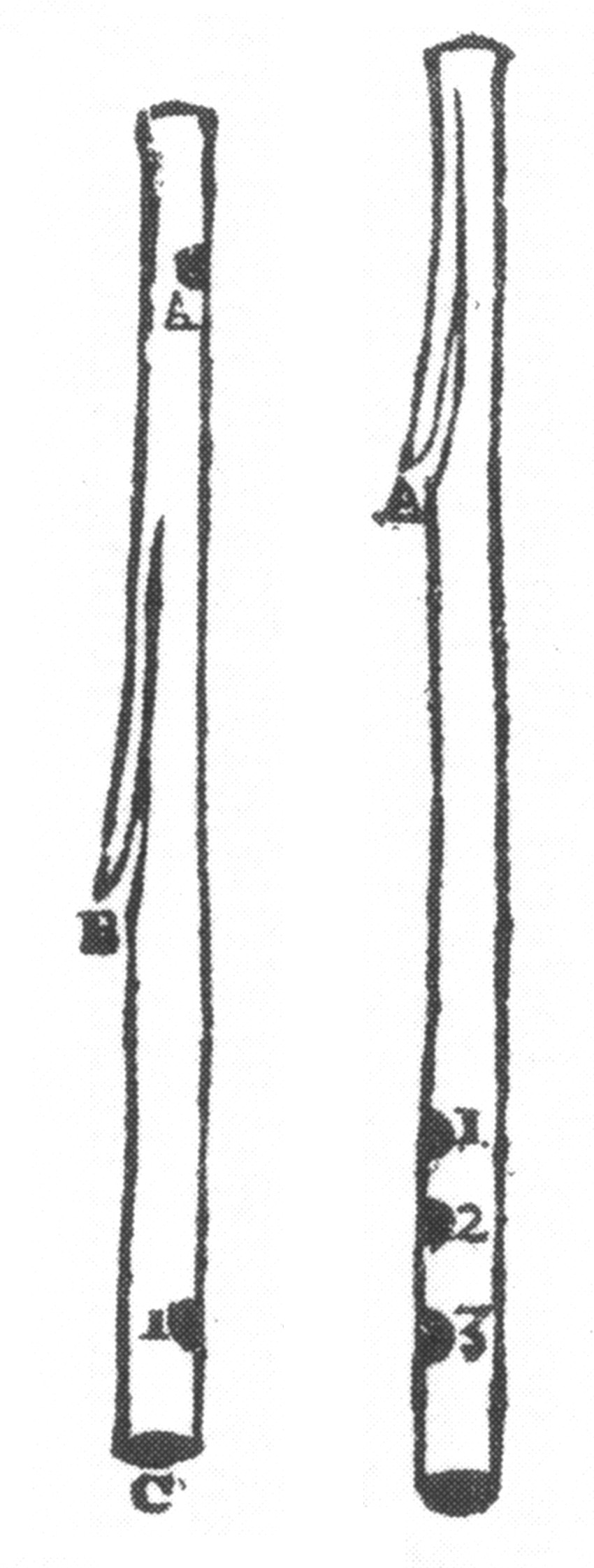 Illustrations of two musical instruments made from wheat stalks designated as chalumeaux in Mersennes Dictionary of 1636